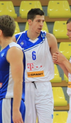 горјанмзт